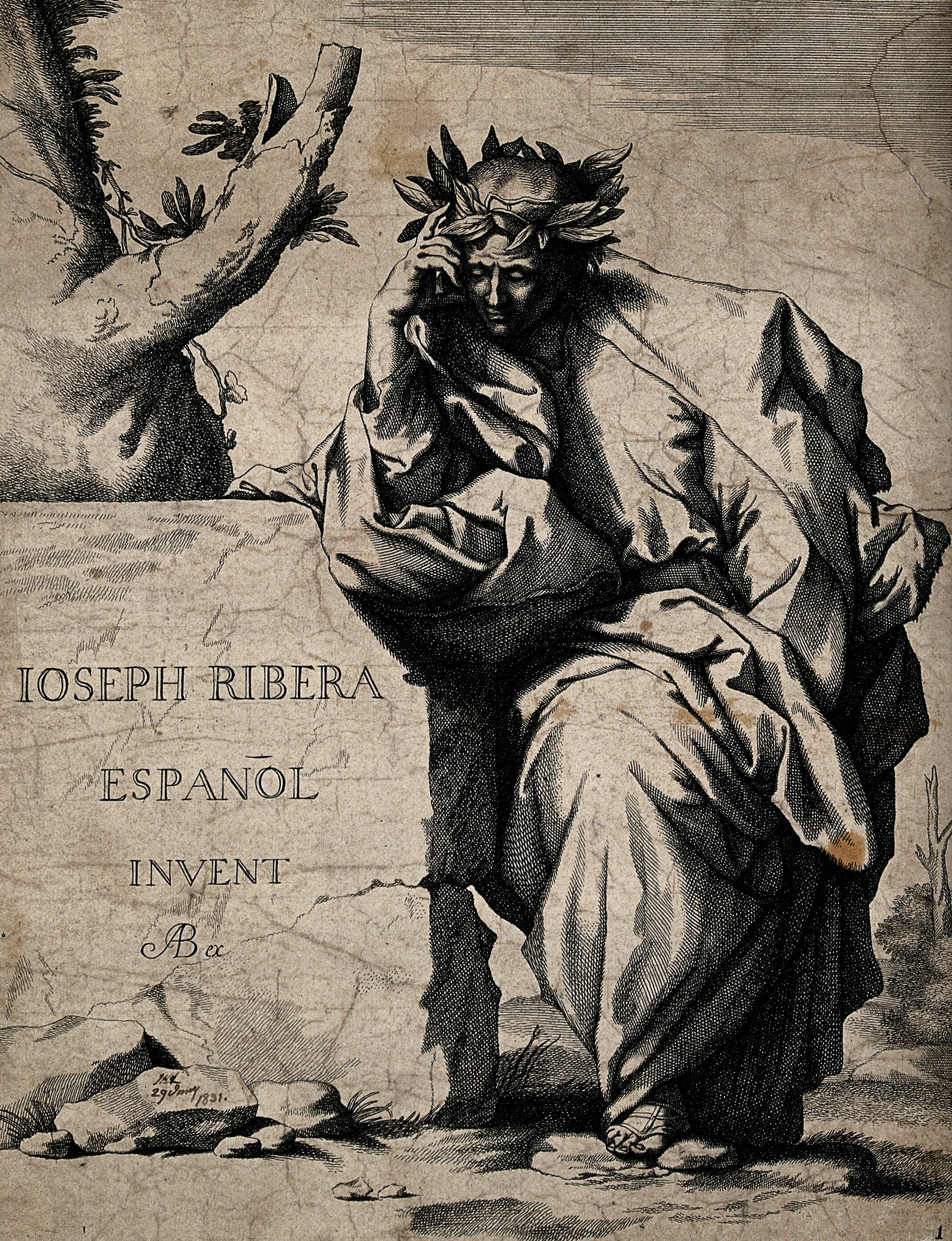 The melancholic figure of a poet leaning on an inscribed block of stone. Engraving by J. de Ribera. Iconographic Collections Keywords: Jusepe de Ribera